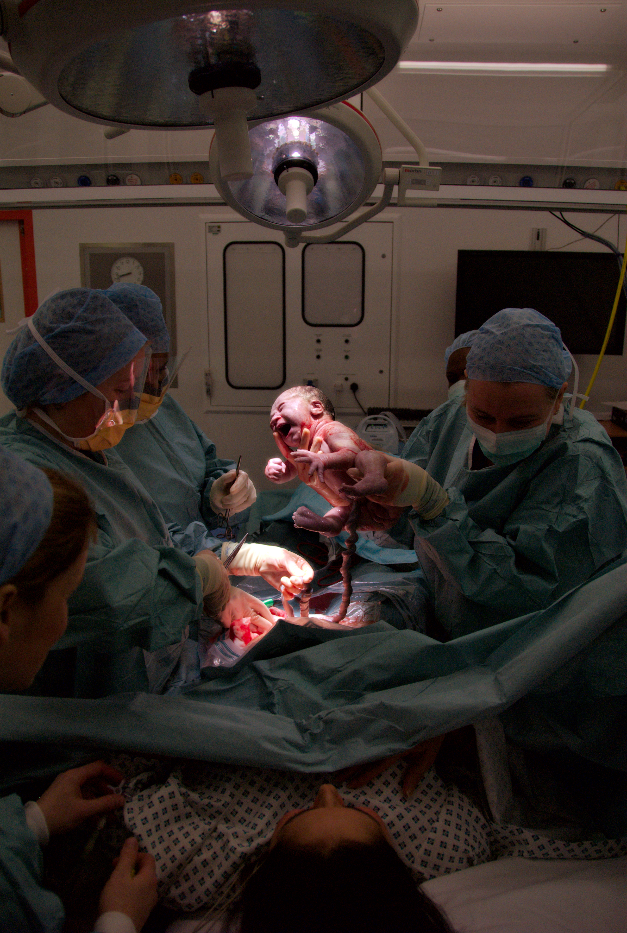 Cesearian Suegery, obstetricians at work The working swiftly the obstetrician performs a cesarean section - this photo captures the first moment that the mother sees her new-born child.